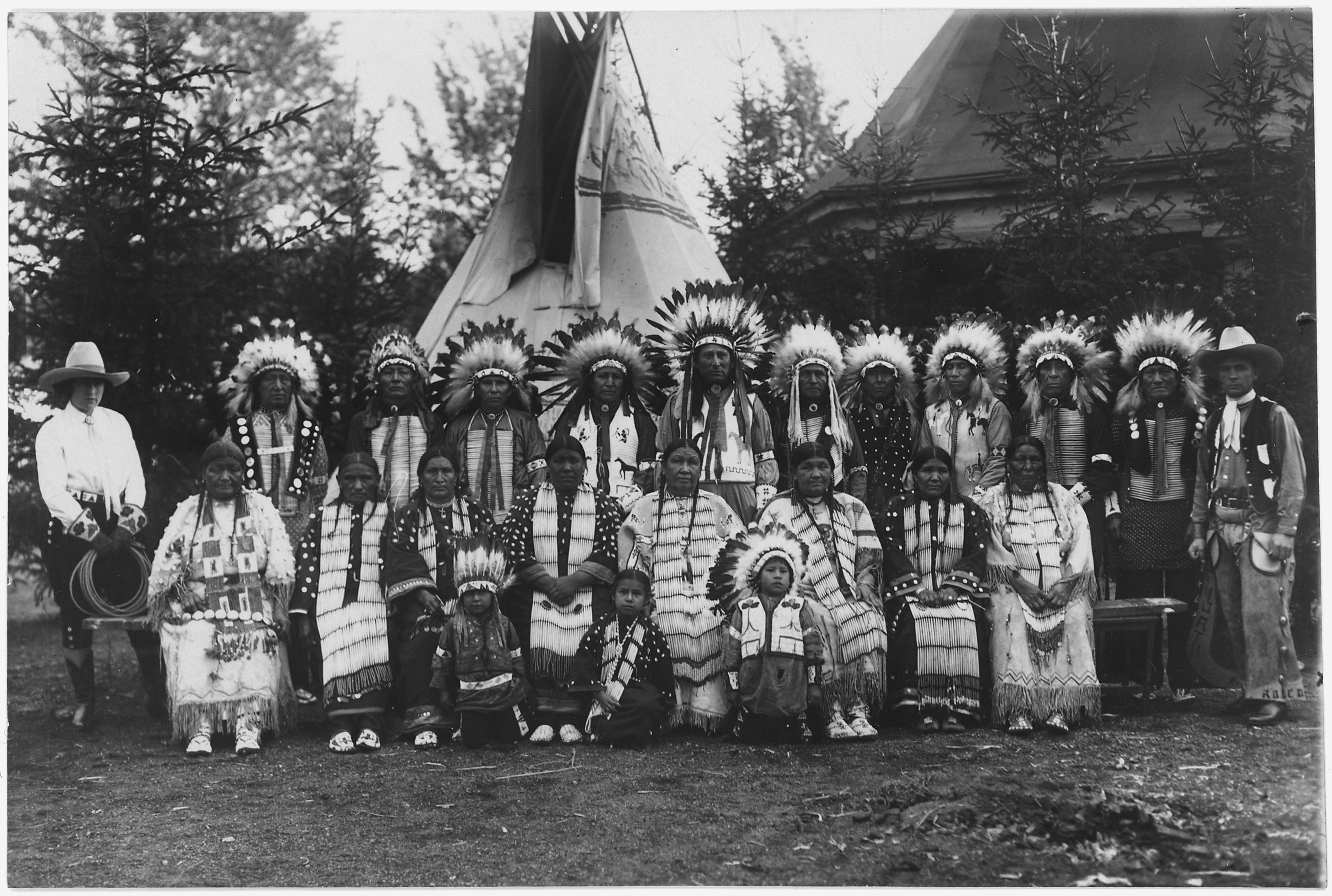 Scope and content: A group of Sioux Indians made toured Germany with the Circus Sarrasani in 1928.